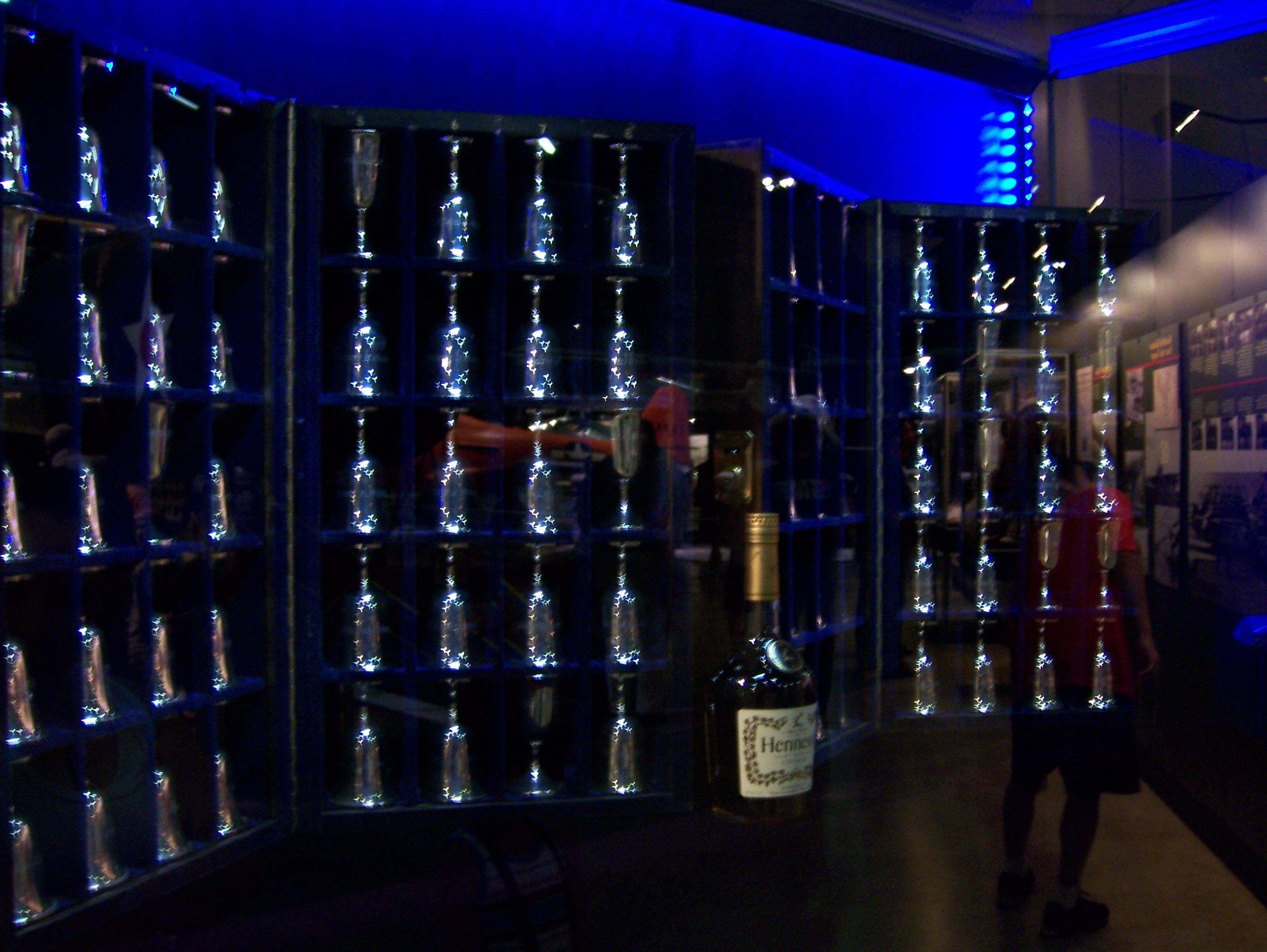 Silver goblets used by the Doolittle Raiders, on display at Wright-Patterson Air Force Museum, in Dayton, Ohio. The upside-down goblets represent those members of the raid who have passed on.